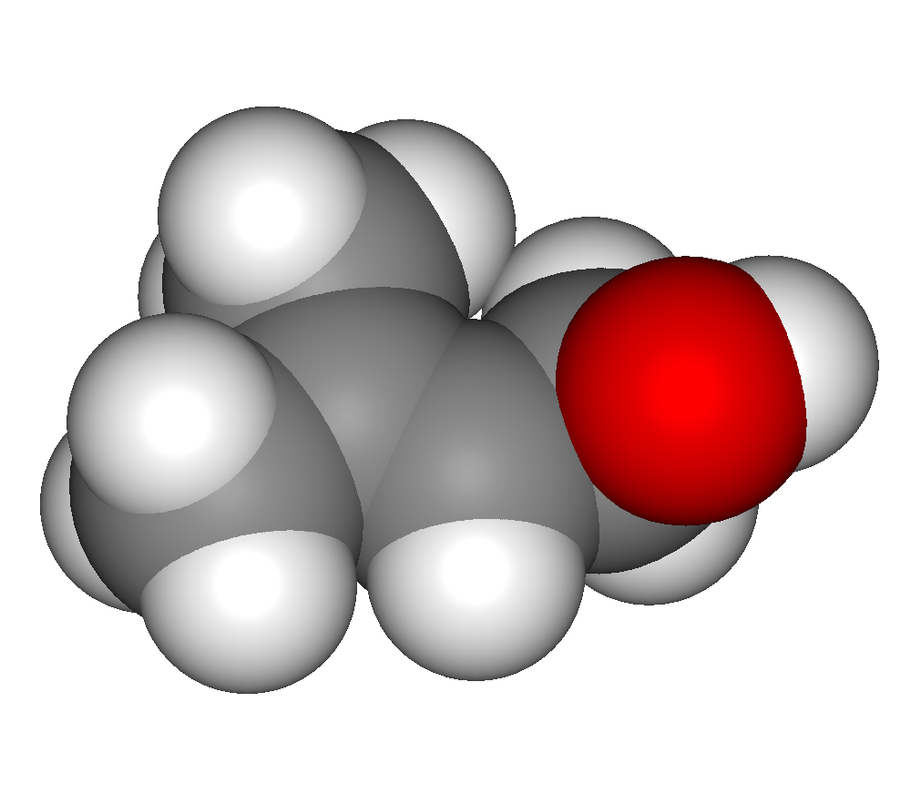 chemical structure of prenol